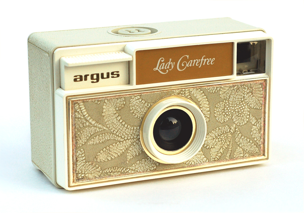 Argus Lady Carefree, a plastic camera for 126 mm film cartridges, made by Balda-Werke (Germany) around 1967.